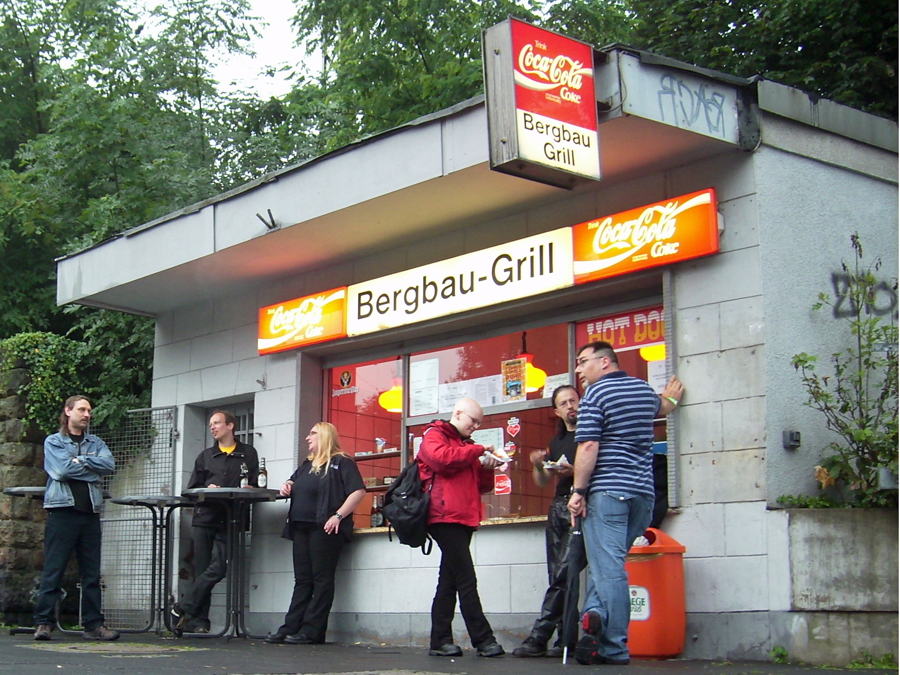 Extraschicht 2009